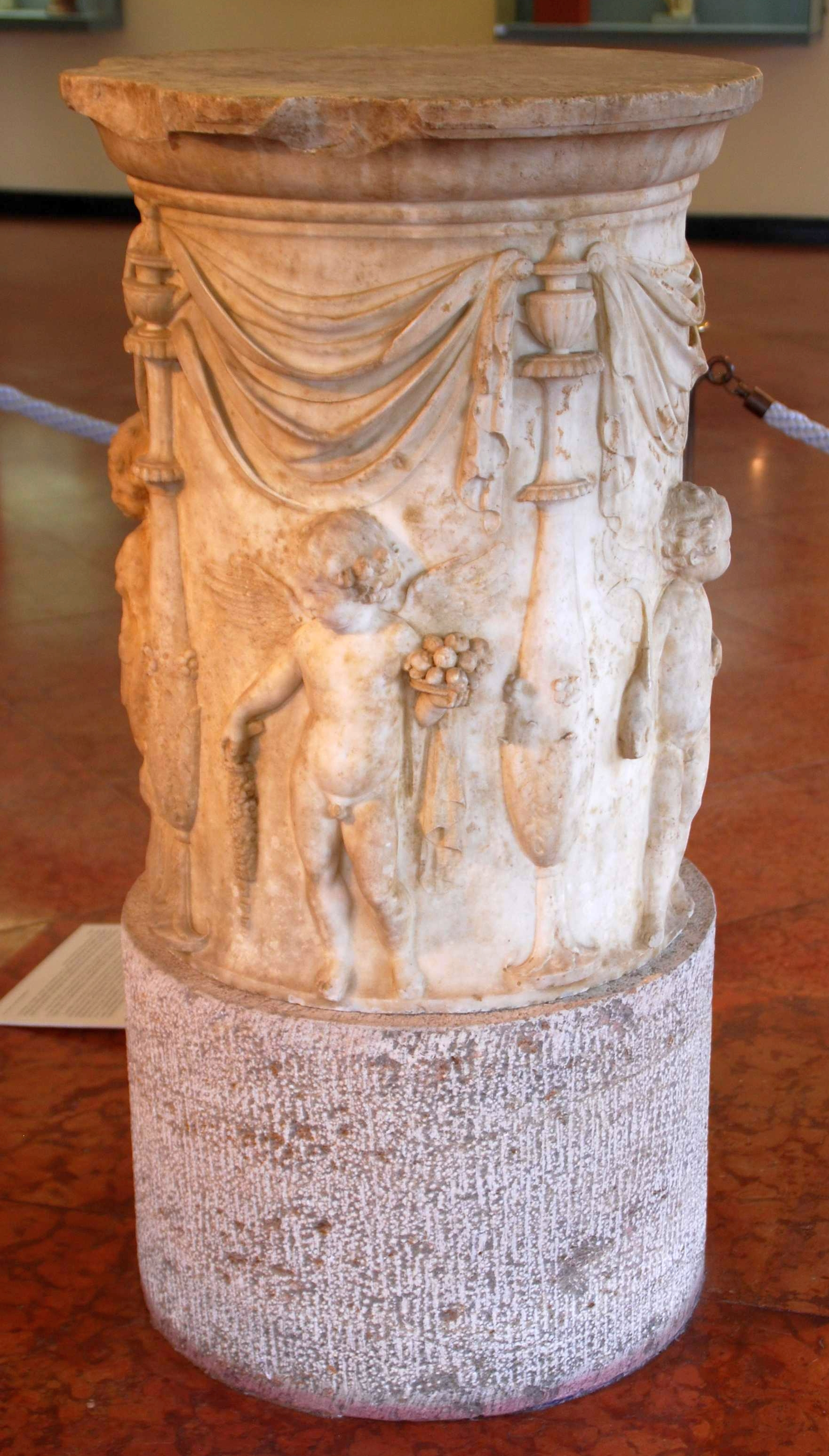 "Würzburger Vierjahreszeitenaltar", roman altar, faound 1886 in the Horti Sallustiani in Rome; 4 Puttos representing the four seasons; dated ca. 40 AD; since 1966 in the Martin von Wagner Museum in Würzburg (Inventarnumber H 5056); High 73 cm, Diameter 56,4 cm